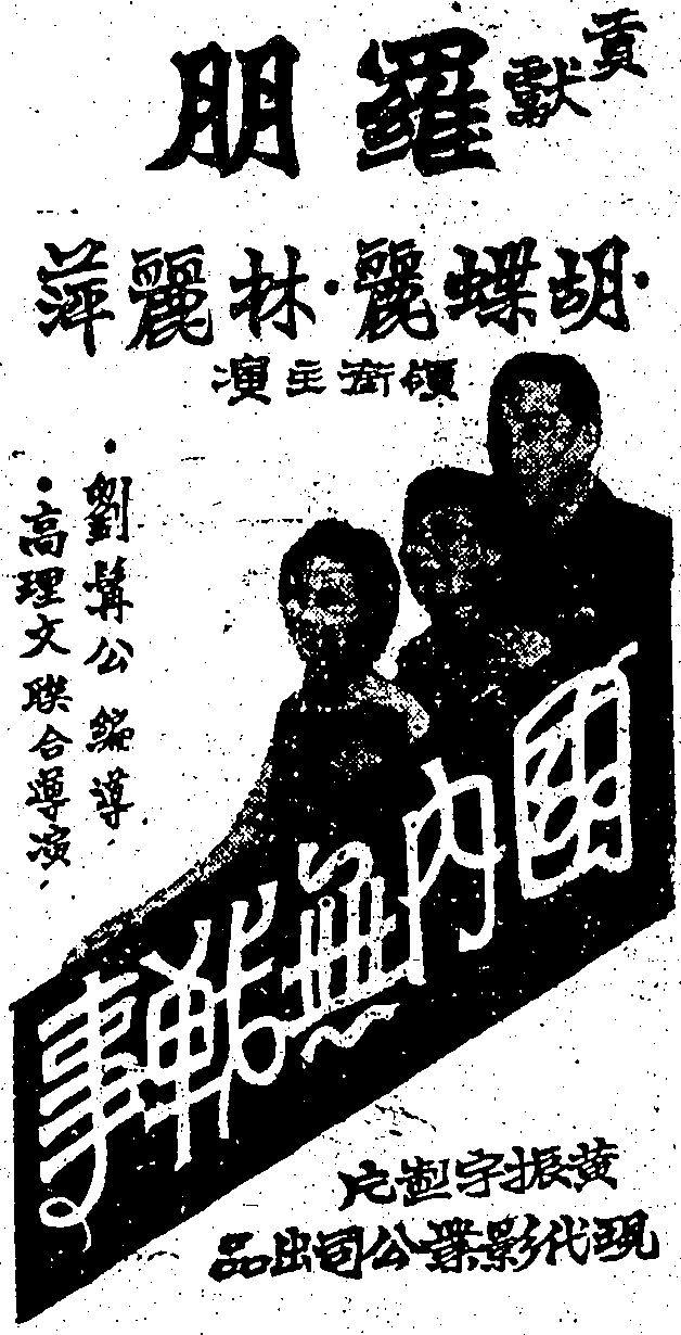 "The Forces Within"(1937, HK Movie, Cantonese, B/W) Advertisement 中文（香港）: 1937年，香港黑白粵語電影《國內無戰事》的廣告